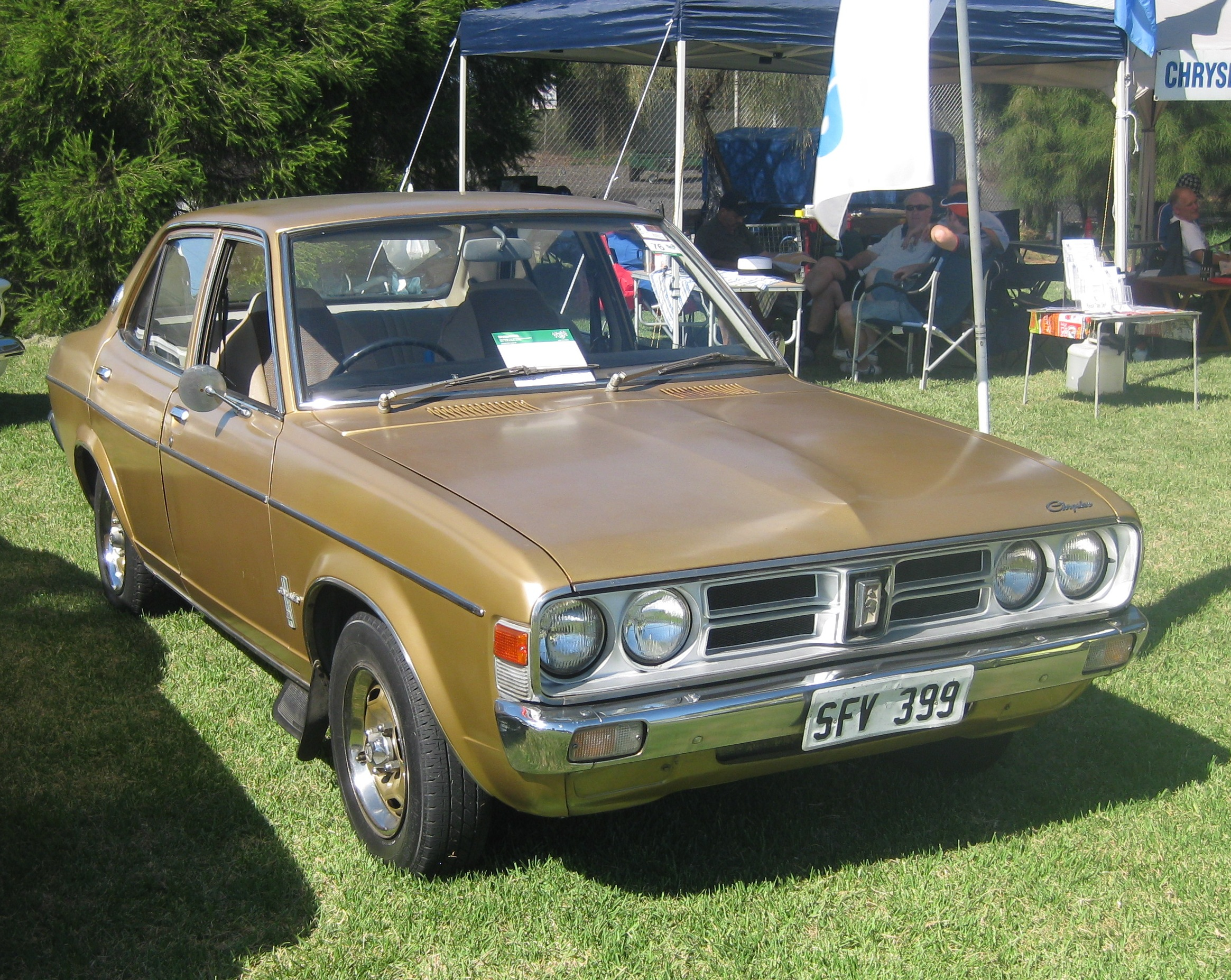 Chrysler GD Galant Sedan as produced by Chrysler Australia from 1976 to 1977